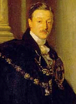 Charles Spencer-Churchill, 9th Duke of Marlborough